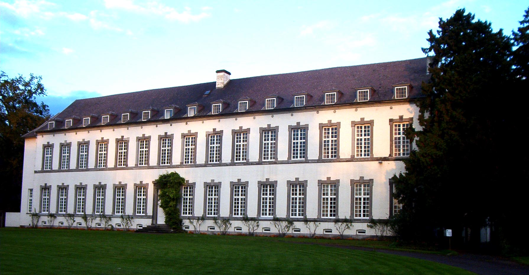 Abbess'quarters abbbey of Herkenrode Hasselt in Flanders (Belgium)